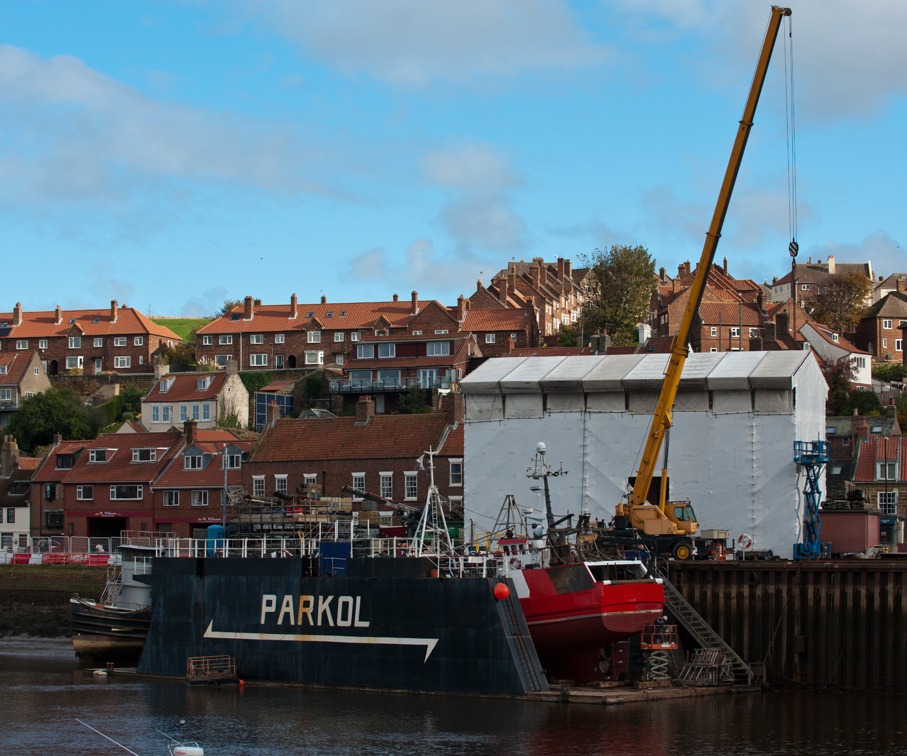 Parkol Marine shipyard Whitby - Parkol Marine are an engineering and ship (boat) building company based in Whitby, North Yorkshire. They have a dry dock and the fabrication hangar is the structure with white cladding on it. The crane lowers new build ships into the river.